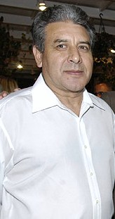 Ricardo Bernal